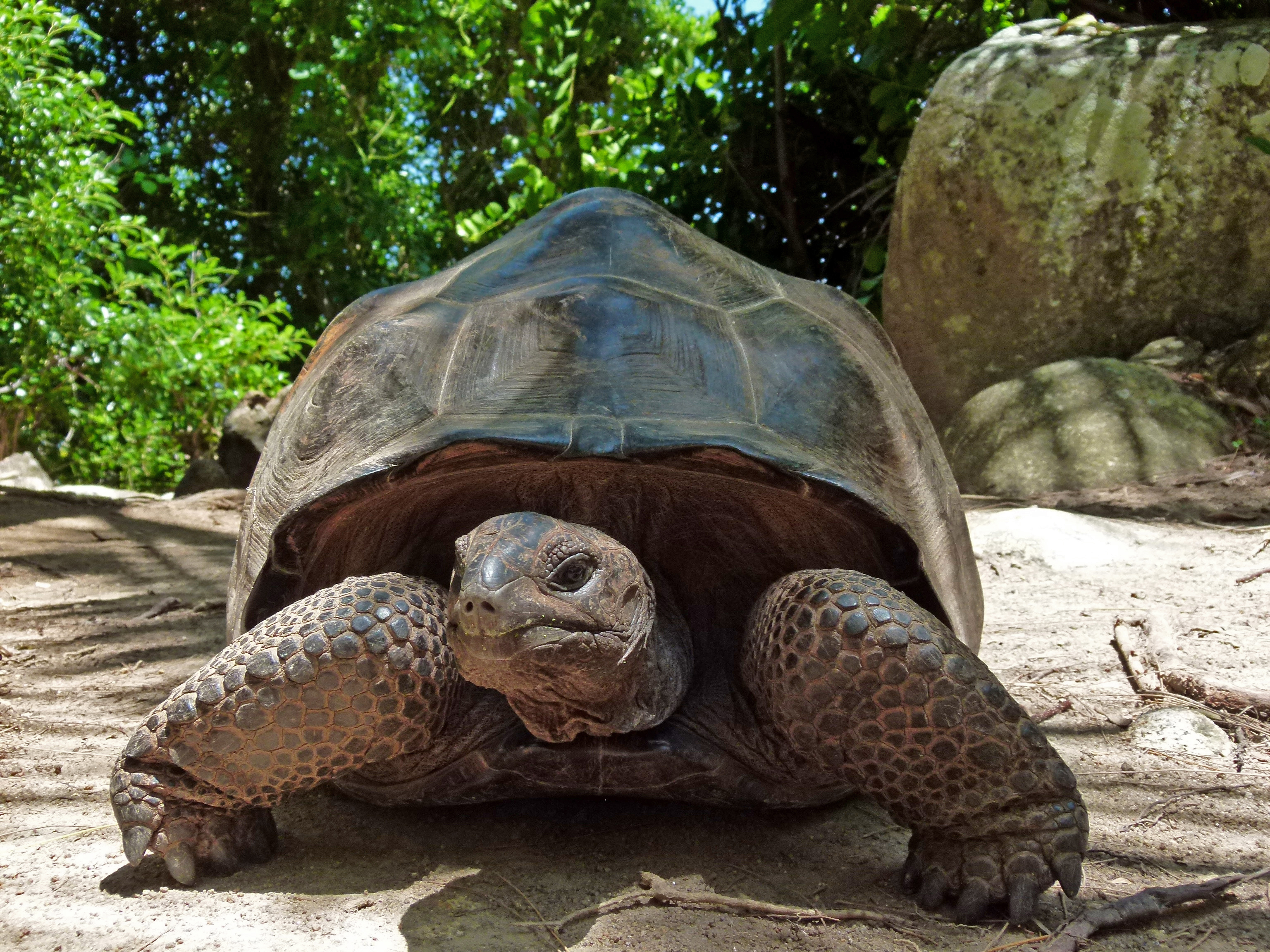 A. gigantea on Moyenne (Seychelles, March 2016)